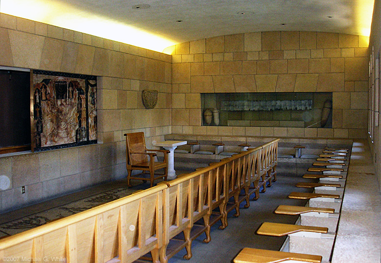 The Israel Heritage Classroom, one of the Nationality Rooms in the Cathedral of Learning at the University of Pittsburgh. photo by Michael G White